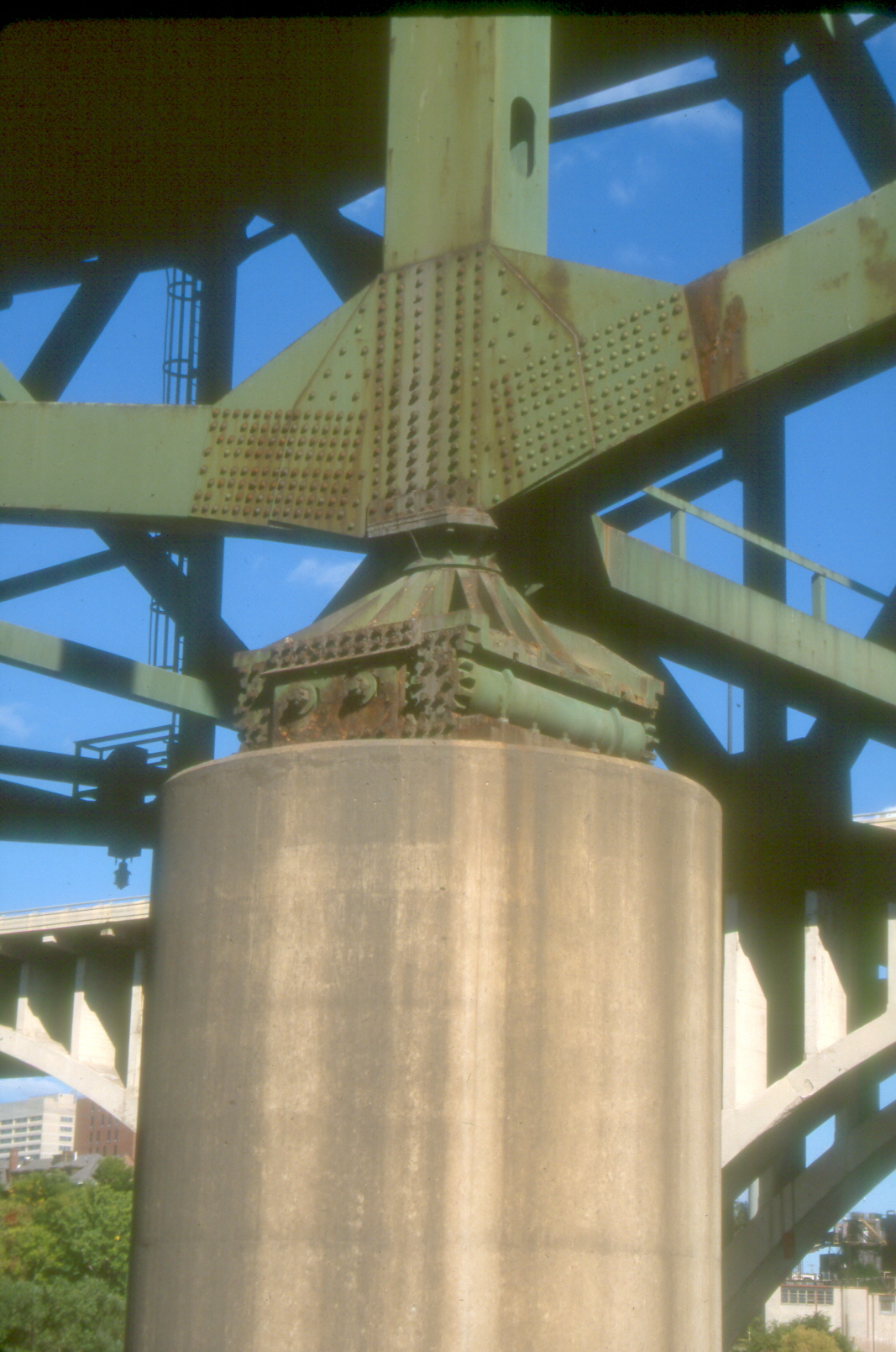 I-35W Mississippi River bridge, South-West pier. I took it in 1996 while visiting Minneapolis. It is a picture of the South West pier of the I35W bridge which collapsed on August 1, 2007. I was impressed by the mechanism allowing the bridge to shift back and forth on enormous gears, like a huge carriage floating on a rack and pinion-like system. This picture shows much less rust then the following picture which someone took 9 years later (2005)